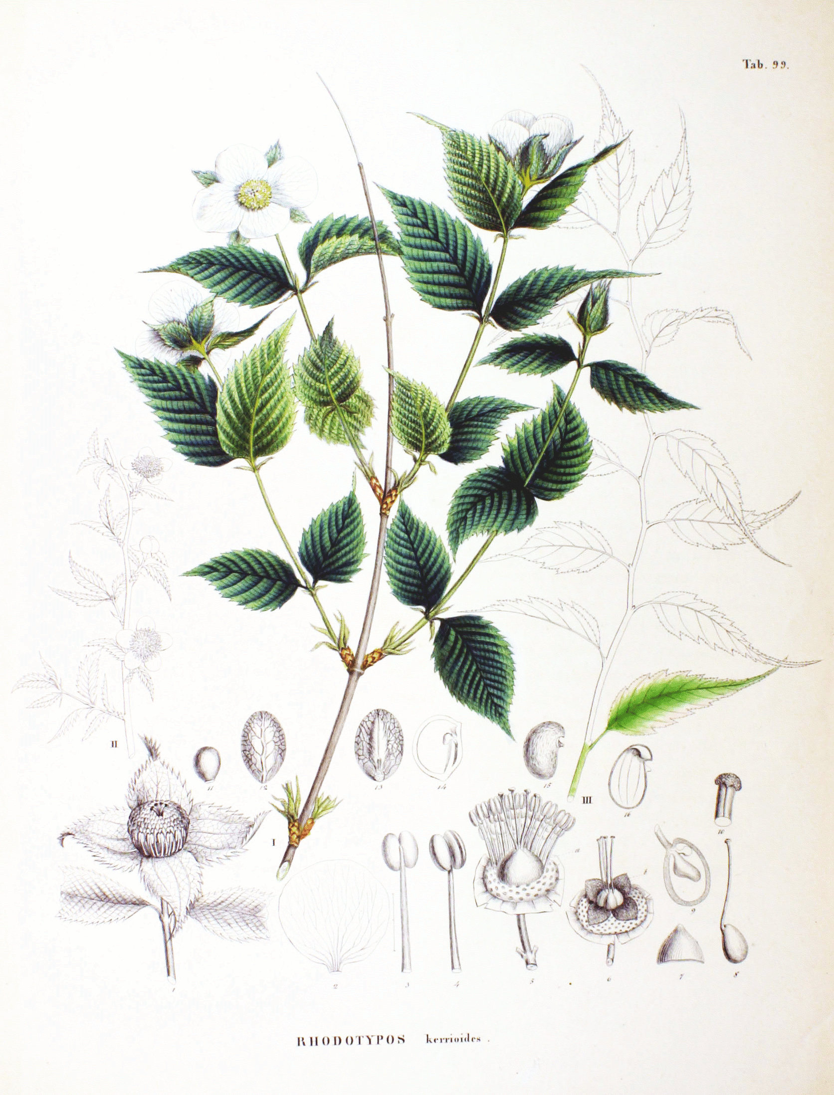 Plate from book